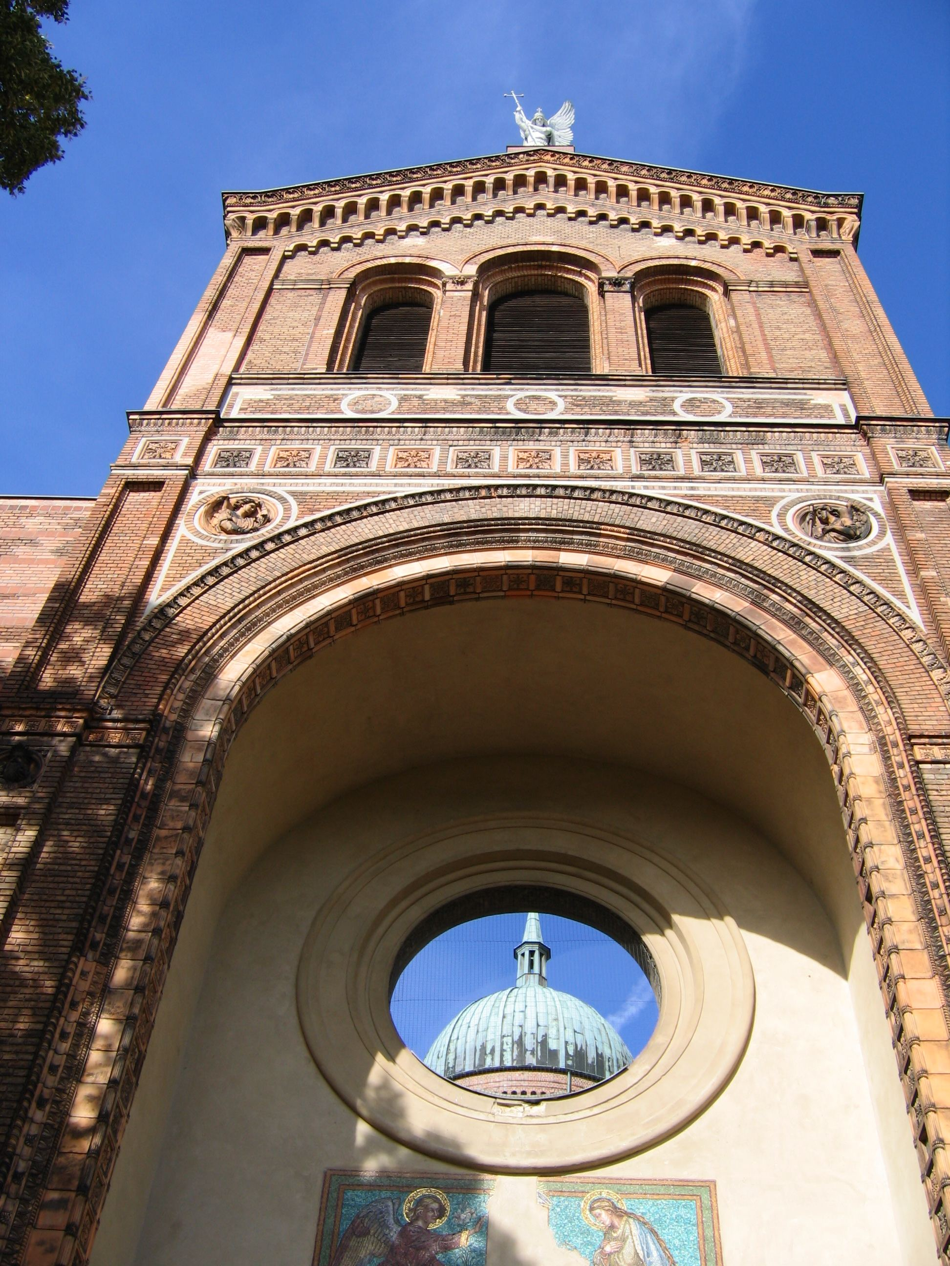 The front of the Saint Michael church (Sankt Michaelskirche) in Berlin